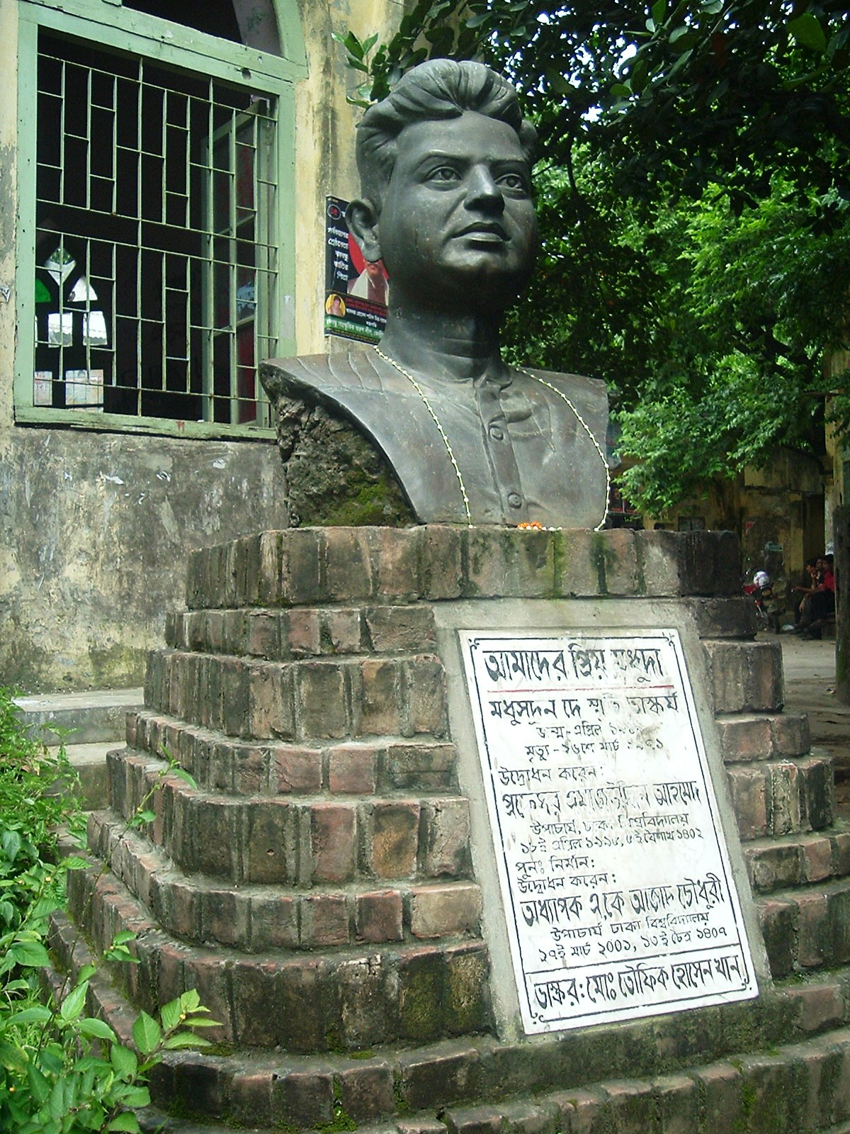 Sculpture of Modhu Da, Dhaka University, Dhaka.